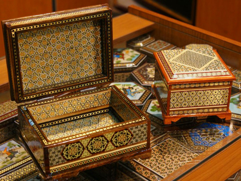 Persian HC